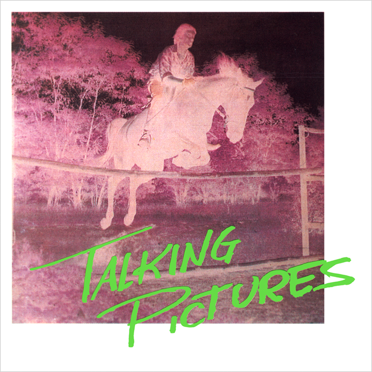 Talking Pictures CD cover